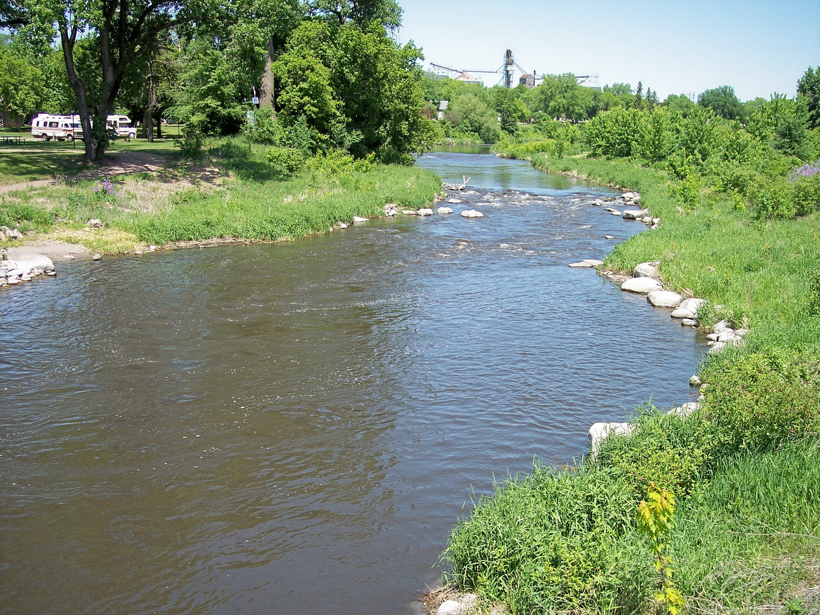 The Pomme de Terre River as viewed upstream from a pedestrian bridge in Appleton, Minnesota.